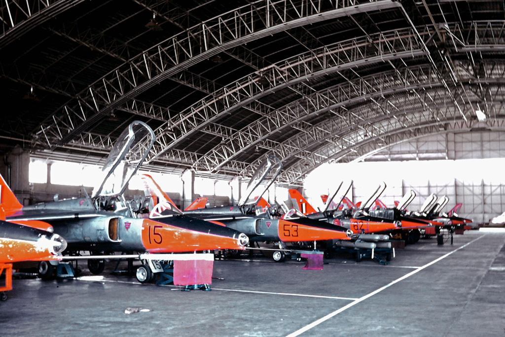 The maintenance hangar at RAF Valley in 1967 with Folland/HS Gnat T.1's receiving servicing.